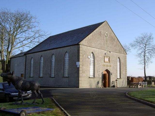 An Eaglais Amenity and Heritage Centre An Eaglais is a small community business offering a small restaurant for travellers, tourist information, wall space for locally produced goods and a small conference centre. The centre is housed in a previously disused Presbyterian Church right beside the N2 road.